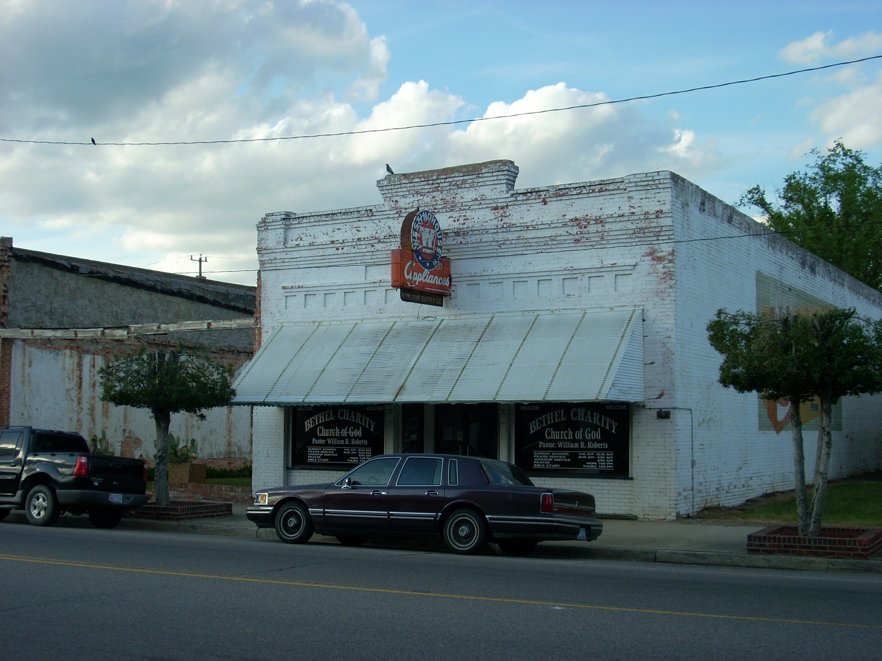 A view of Rowland